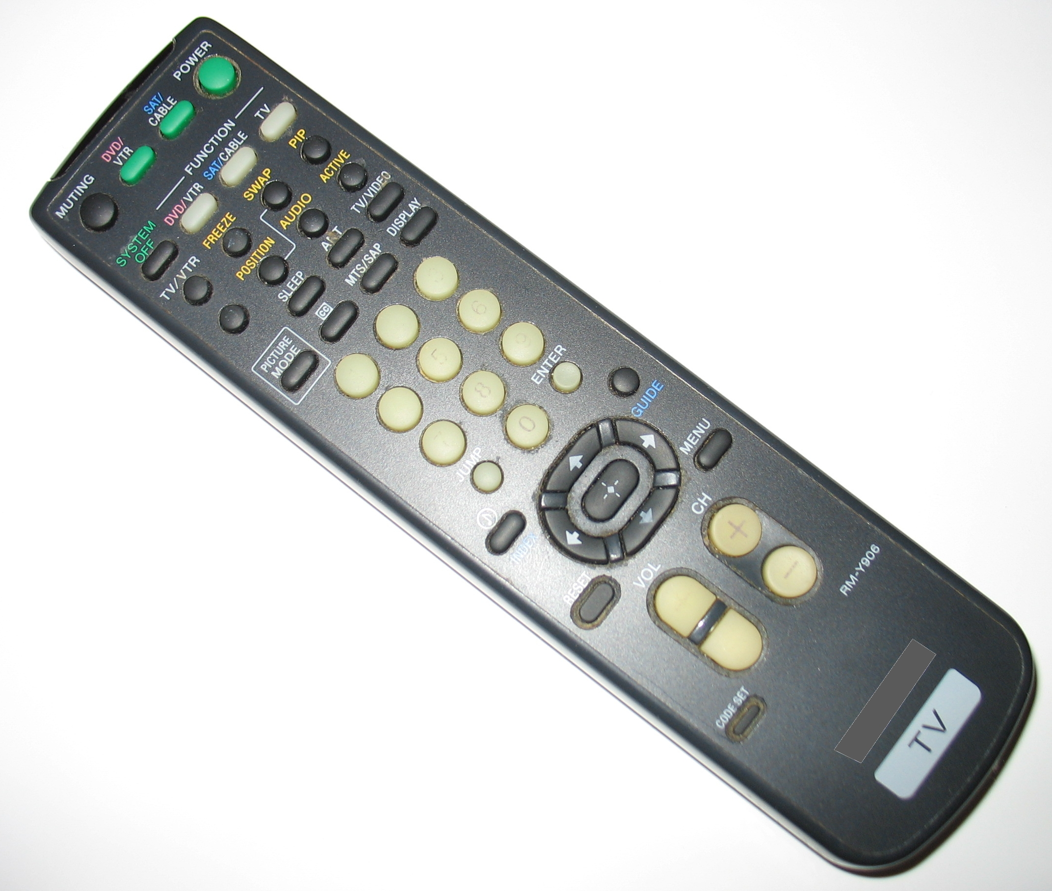 A television remote control.